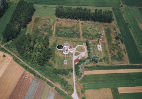 Hajdúhadház, Hungary, aerialphotography